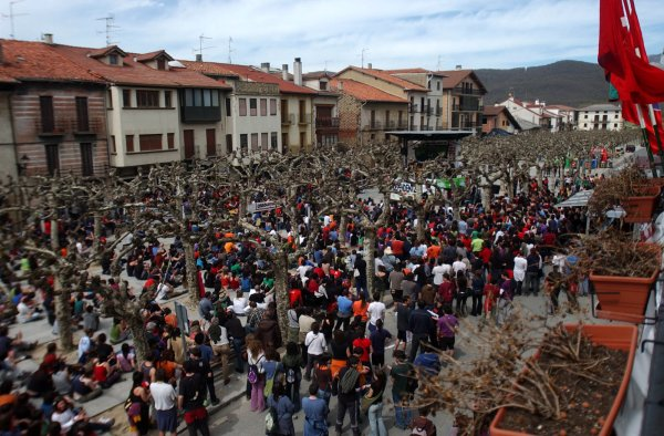 Gazte Topagunea 2006, Etxarri Aranatz. Over 20.000 basque youth independentists made a 4 day meeting in Etxarri Aranatz, Navarre.